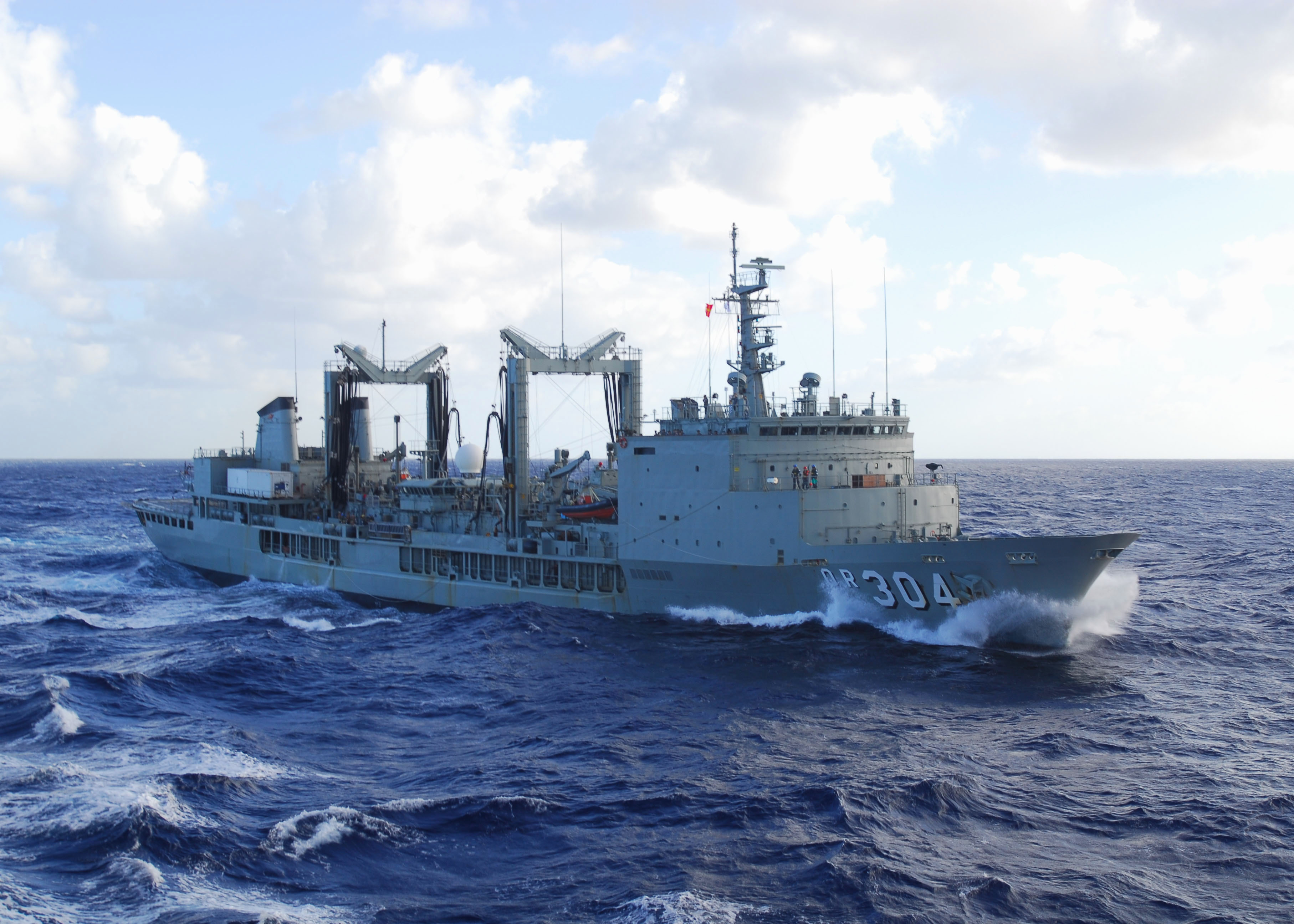 Australian replenishment tanker HMAS Success (AOR 304) comes alongside the forward-deployed amphibious transport dock USS Denver (LPD 9) in preparation for an underway replenishment.